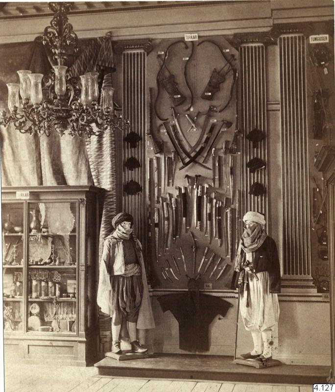 Interior with dressed mannequins from the General Ethnographic Exhibition in Stockholm 1878-79.